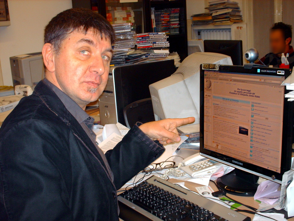 Ermanno Gomma Guarneri in his office.